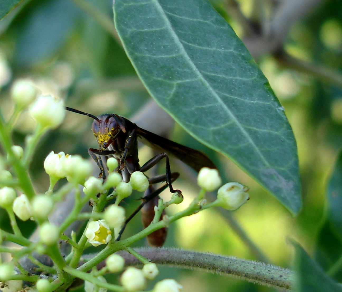 Wasp (Mischocyttarus rotundicollis) carrying pollen of Brazilian pepper tree (Schinus terebinthifolius), acting as pollinator.